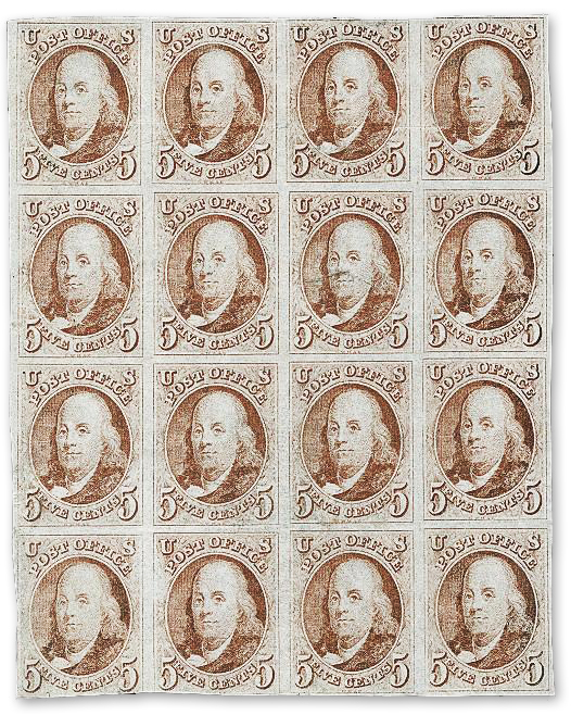 1847 Block of 16 Stamps